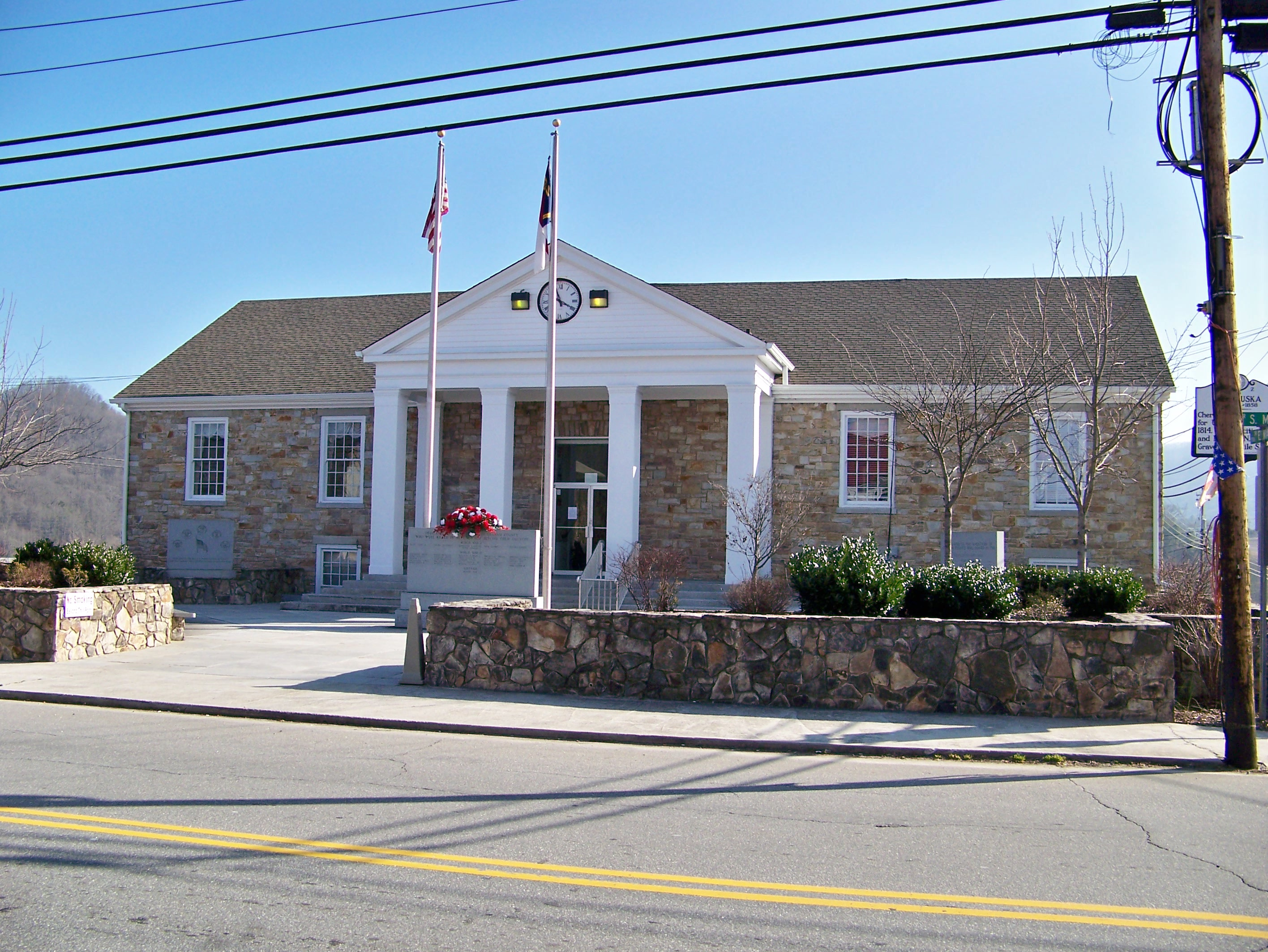 Graham County Courthouse